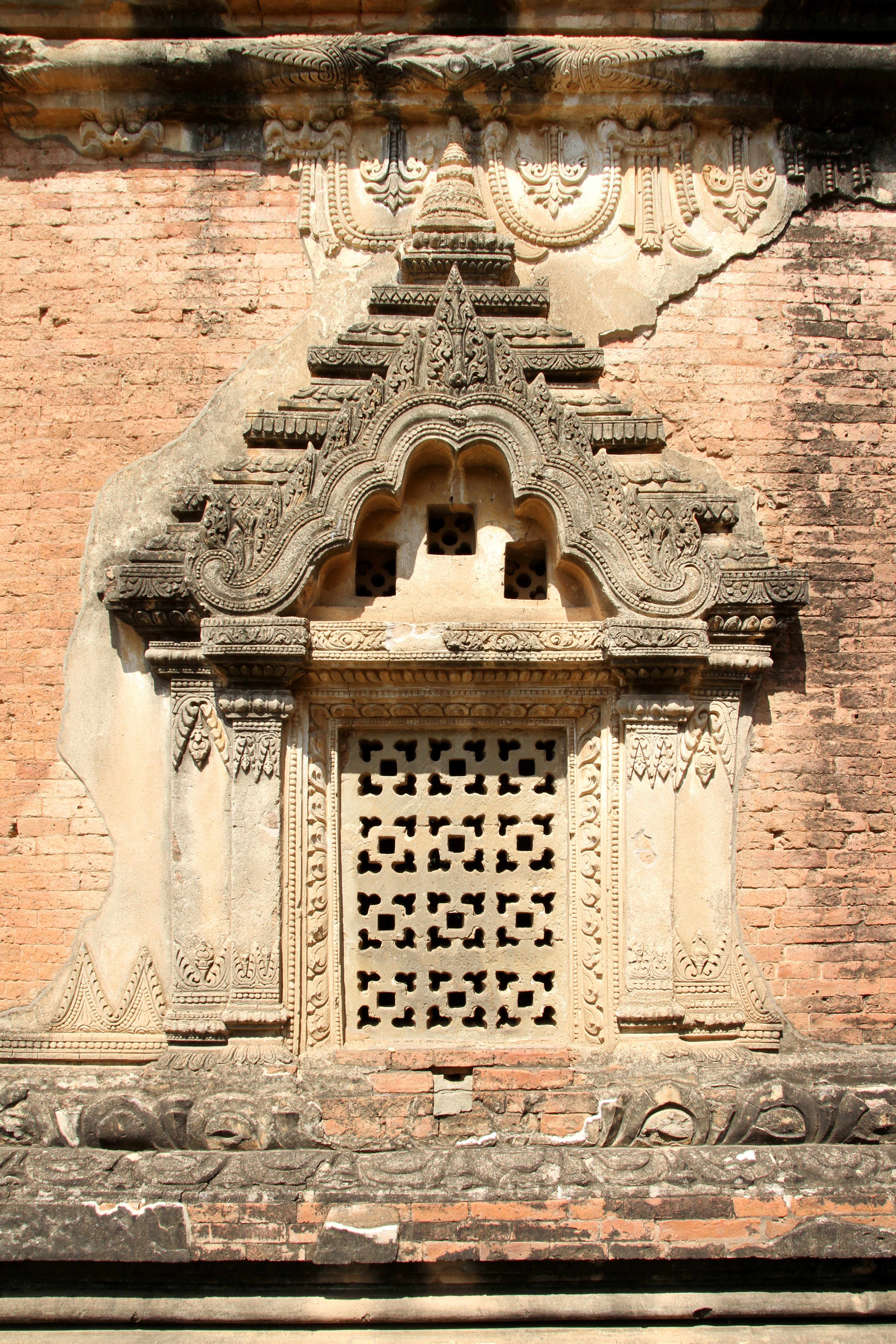 Gubyaukgyi temple (Myinkaba) in Bagan, Myanmar.